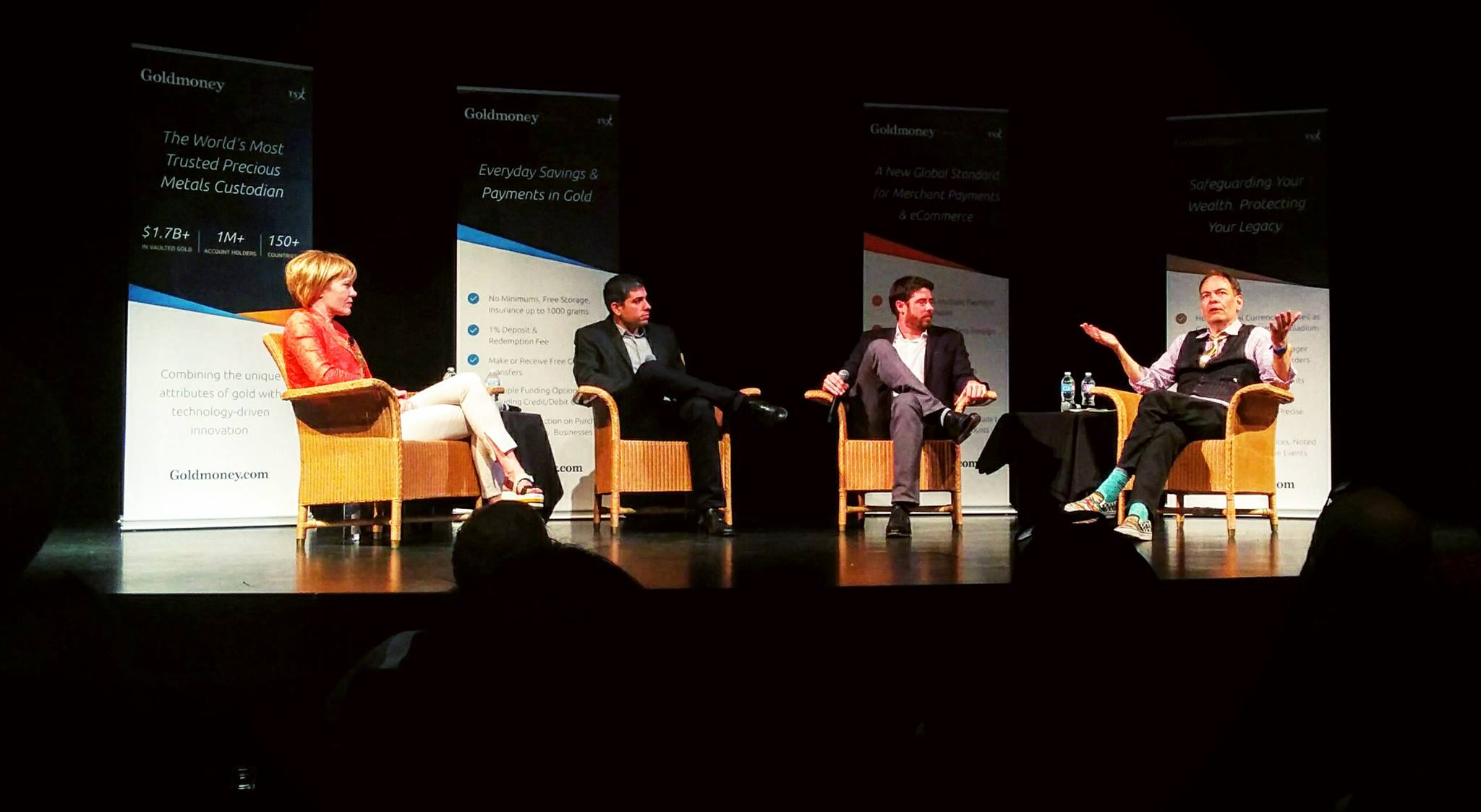 Max Keiser, Stacy Herbert, Roy Sebag, Josh Crumb at a Goldmoney talk. June 16th 2016, Toronto, Canada.